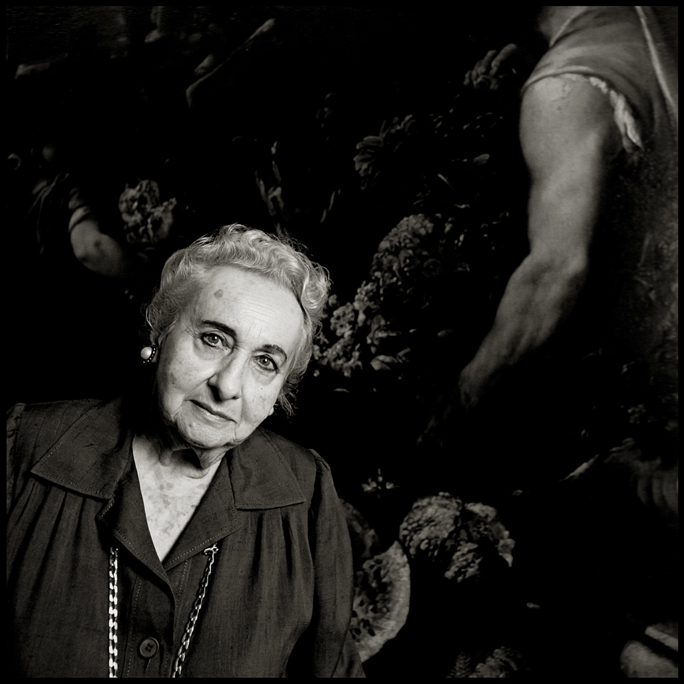 Portrait of Jeanne Carola Francesconi - Augusto De Luca photographer.